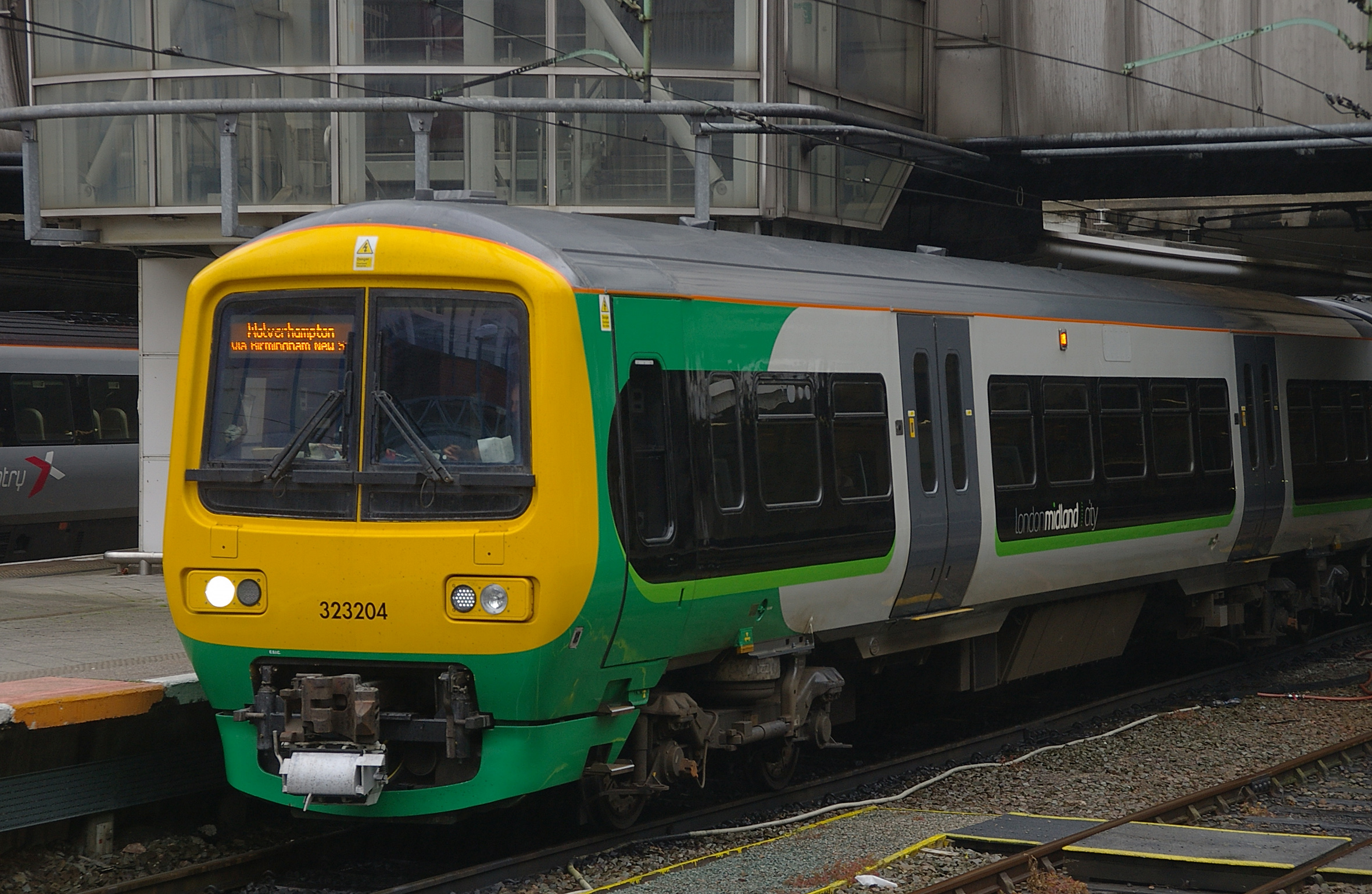 London Midland 323204 at Birmingham New Street railway station.